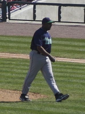 Pedro Borbon Jr. of the Cedar Rapids Kernels walks off the mound following a mound visit with Sean O'Sullivan during a 2007 game against the Great Lakes Loons in Midland, Michigan.